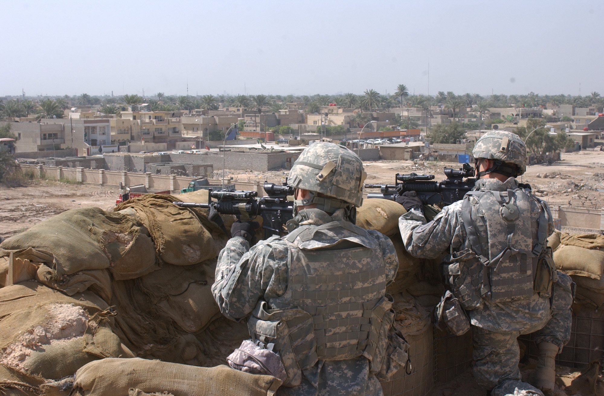 U.S. Army Pfc. Robert Wimegar, left, and Sgt. Troy Bearden, both from Alpha Company, 2nd Battalion, 16th Infantry Regiment, 2nd Brigade Combat Team, 1st Infantry Division, pull security on the rooftop of the District Council Hall in the Mashtal area of East Baghdad, Iraq, March 13, 2007. (U.S. Army photo by Spc. Davis Pridgen)